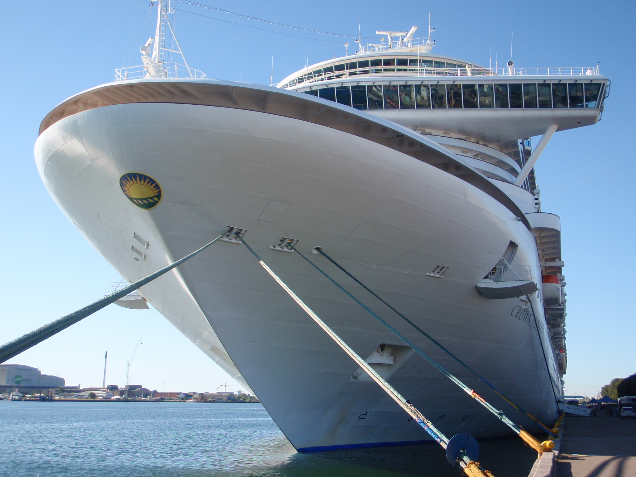 Crown Princess at Langelinie Quay